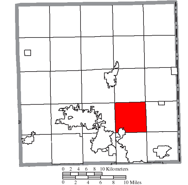 Map of the municipal and township boundaries of Trumbull County, Ohio, United States, as of the 2000 census, with the location of Vienna Township highlighted. Township borders are shown only in unincorporated areas in order to differentiate incorporated and unincorporated areas more clearly.